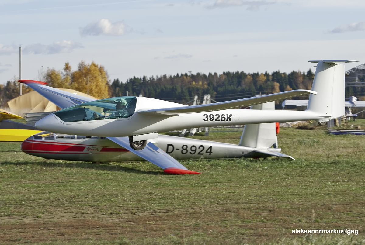 Landing.Airfield Shevlino.Russian glider AC-6 3926K